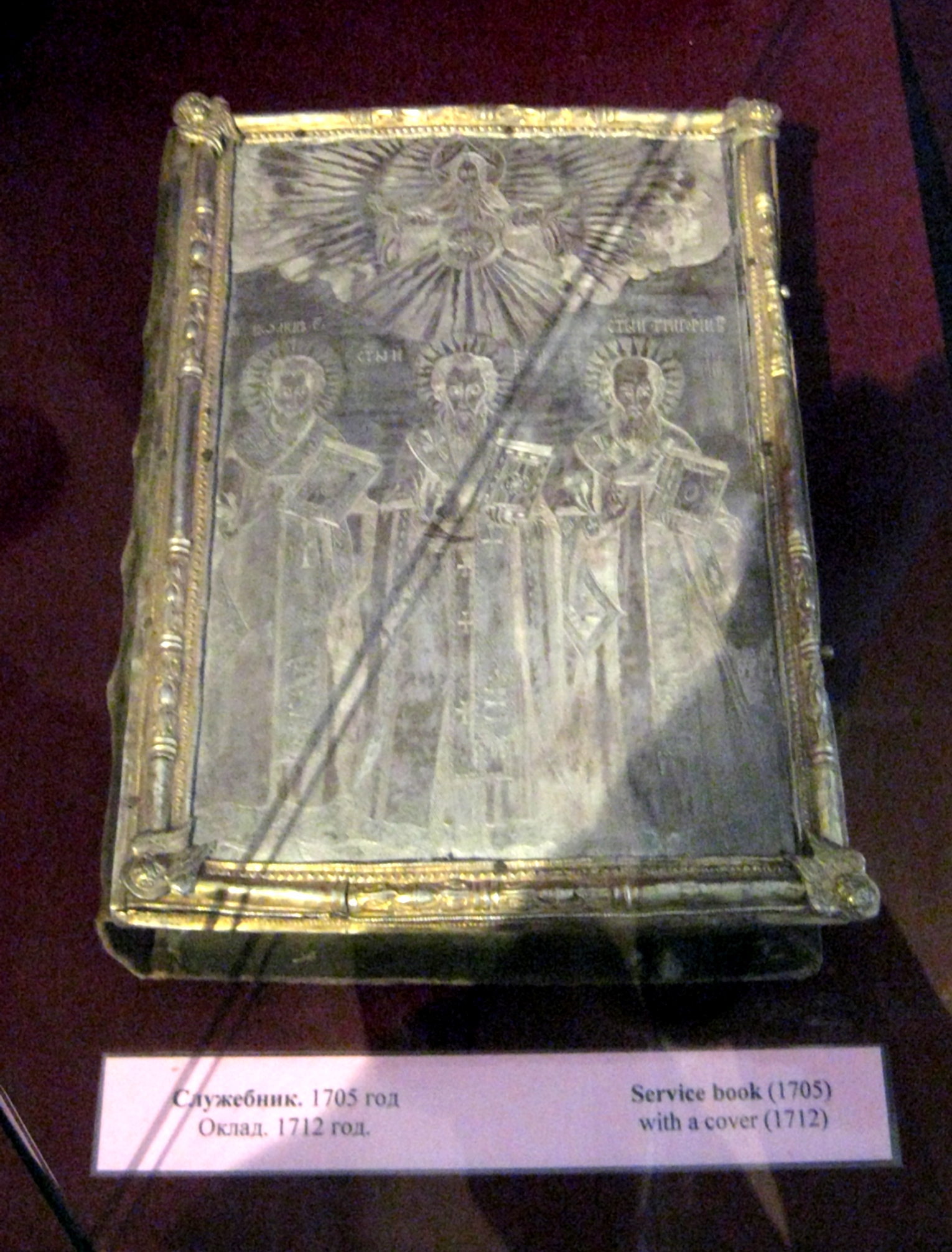 Service book (1705) in cover (1712)